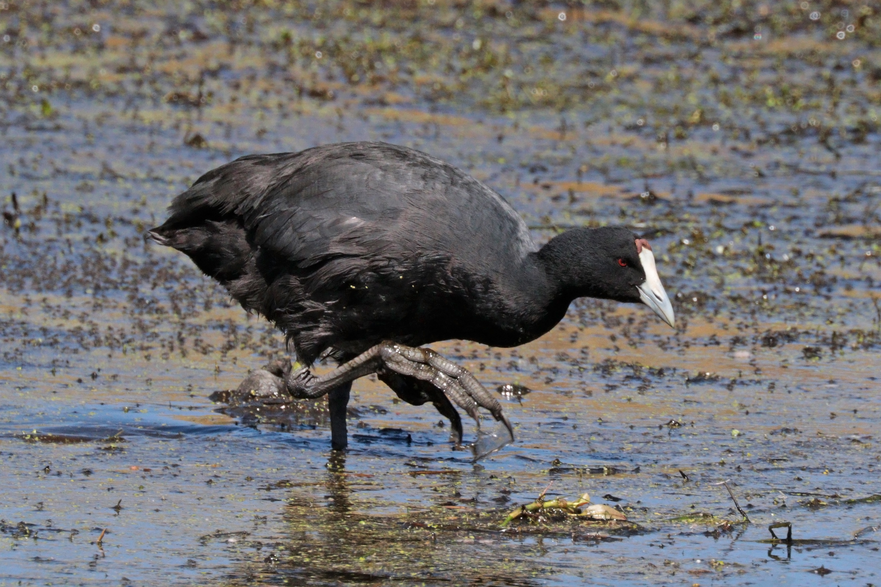 Red-knobbed coot (Fulica cristata) non-breeding, Bale Mountains, Ethiopia